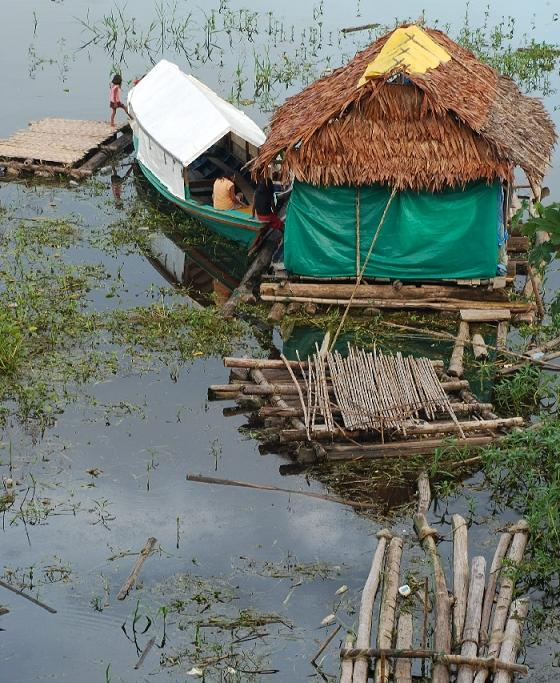 Floating Home on the Amazon, Iquitos, Peru